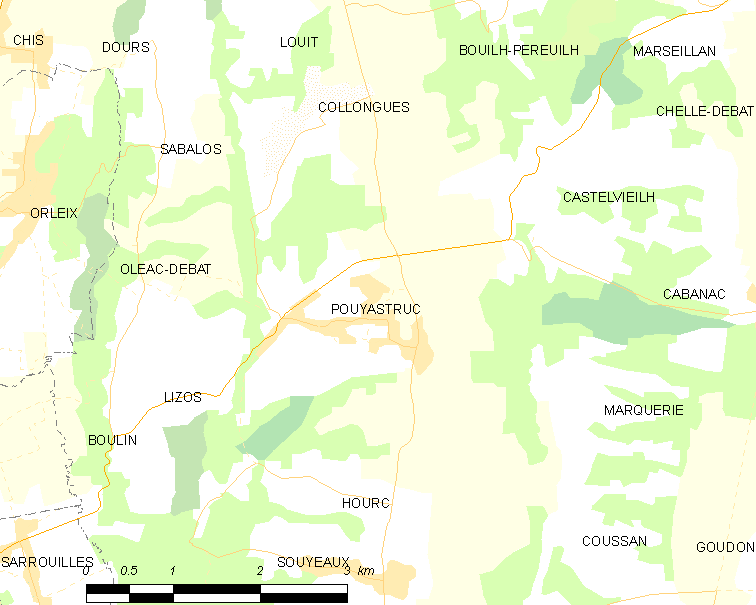 Map of French municipality